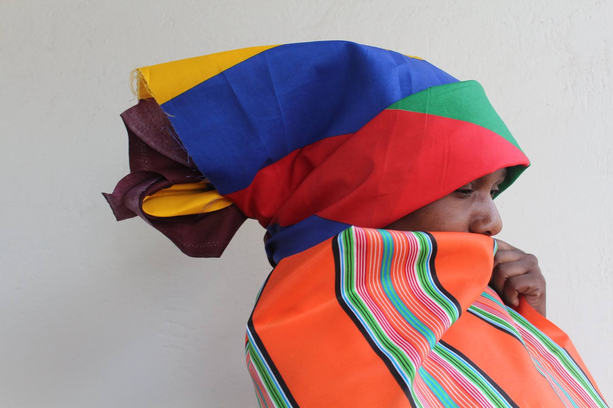 Lulu was part of a research project with sex worker migrants in South Africa. As is the case in many other parts of the world, sex work is criminalized in South Africa, but nevertheless, remains an important livelihood strategy for many people. This is an image with the theme "Africa on the Move or Transport" from: South Africa